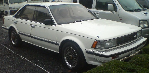 U11 series Nissan Bluebird SSS-XG hardtop